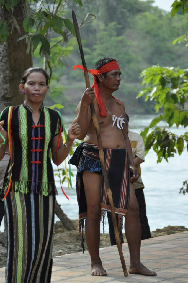 Mnong people during elephant belssing ceremnony in Buon Don, Dak Lak, Vietnam 2012